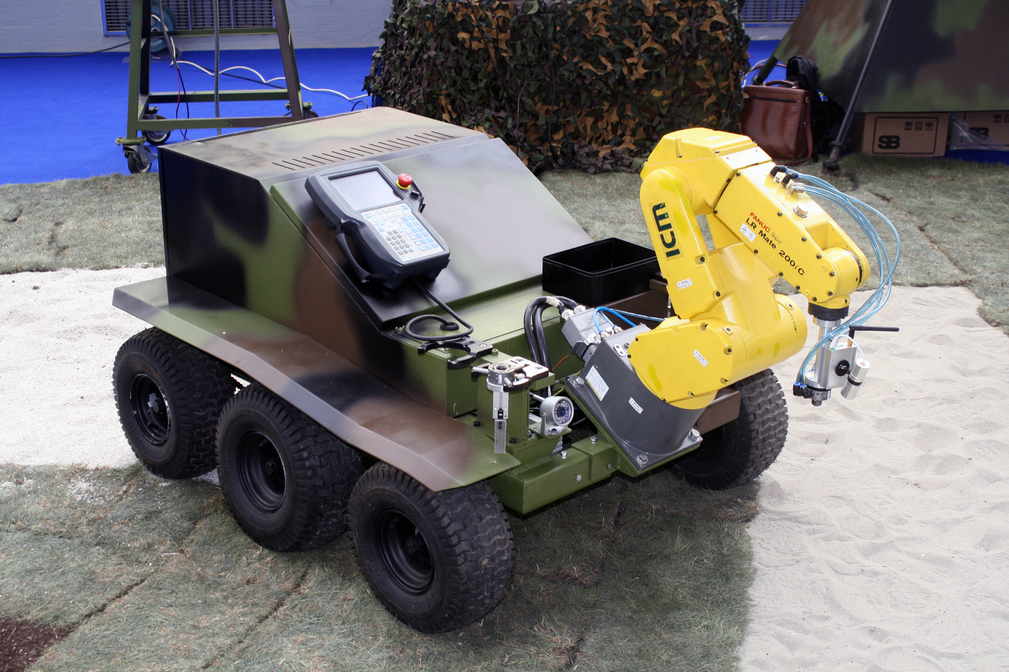 Robot with hand developed by Military technical institute (VTI) on display at "Partner 2011" military fair.